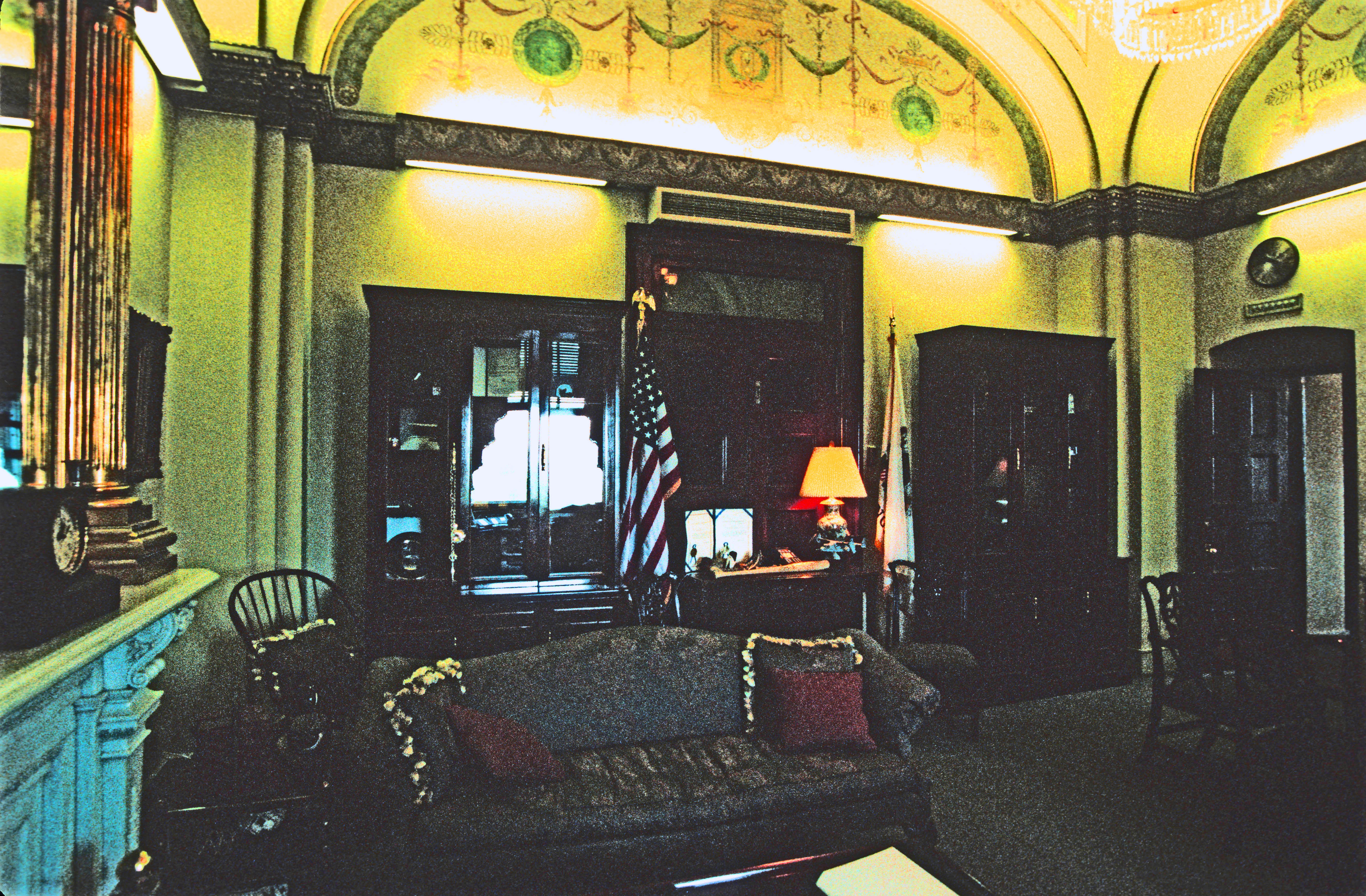 INTERIOR OF THE OFFICE OF THE SPEAKER ACTUAL SITE WITHIN THE CAPITOL BUILDING IN WASHINGTON